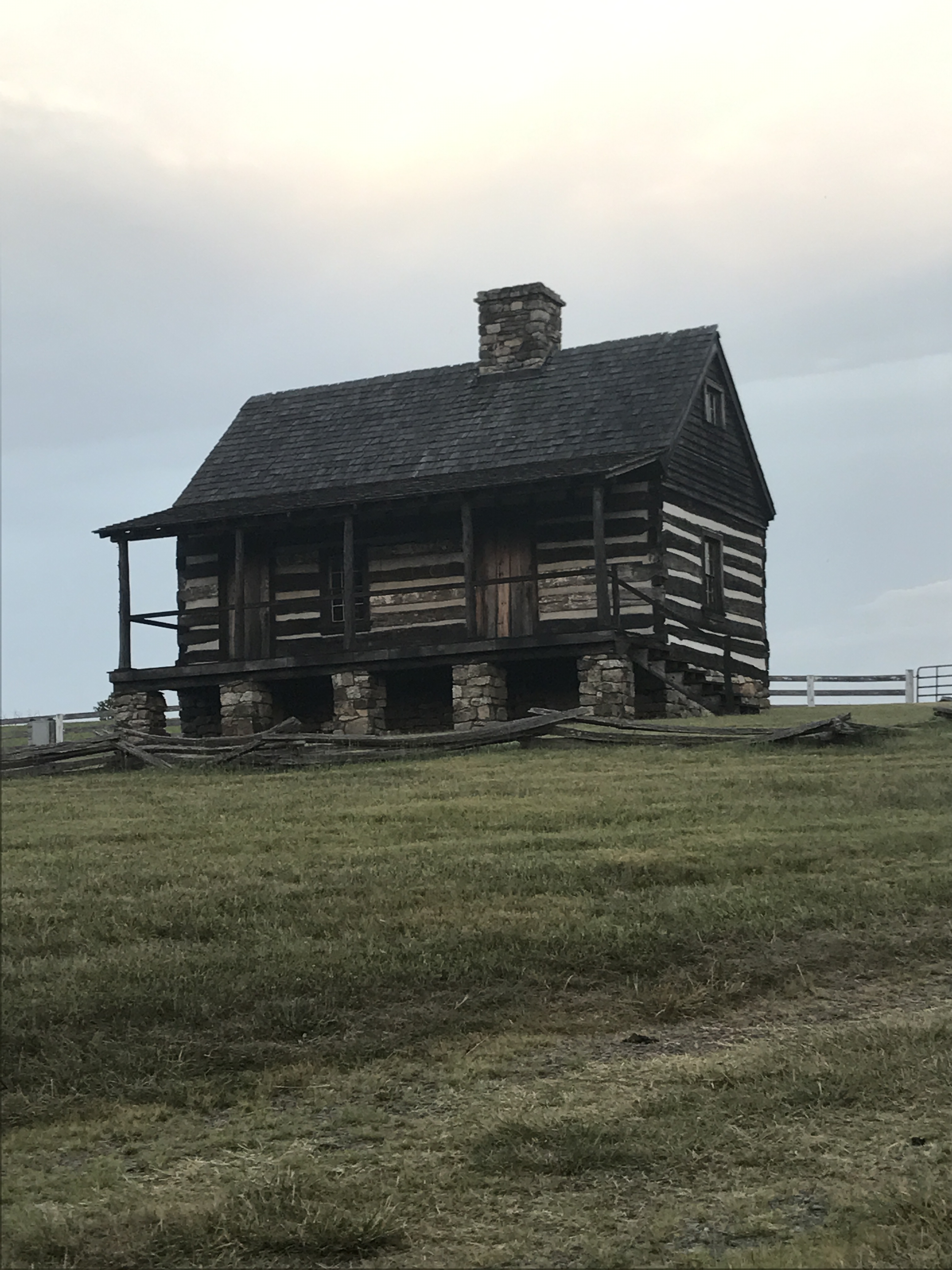 Sam Black's Tavern at Mirador (Greenwood, Virginia)